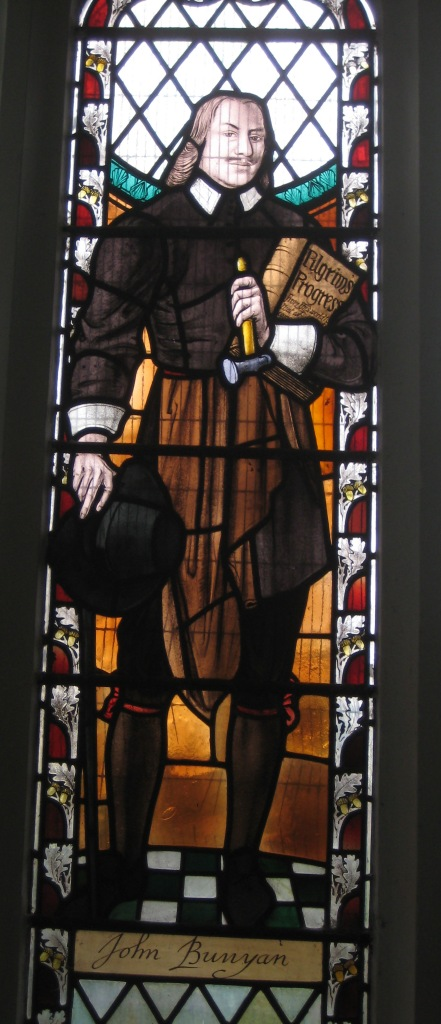 One of Arnold Robinson's windows in the Kingsdown area of Bristol, Robinson designed and installed four three-light windows, this a short while after the 1927 restoration and in the central light of these windows he depicts, in turn, John Bunyan, William Tindale, Archbishop Cranmer and Charles Wesley. The right and left hand lights of the four windows are either plain or hold some coloured glass. The window dedicated to Bunyan has John Bunyan in the centre light with a copy of “Pilgrim’s Progress” tucked under his arm. The window is inscribed “To the Glory of God & in loving memory of George Bradford Steers & Sarah Jane Steers.” Below Bunyan, Robinson painted a roundel with a scene from the “Pilgrim’s Progress”. The three-light window featuring William Tindale has Tindale carrying a copy of his famous Bible and in a roundel beneath he is depicted writing that Bible. The window is inscribed “In Loving Memory of Richard Dalton.” Another three-light window depicts Charles Wesley, who had lived in nearby St James’s which through growth and popularity led to the need for a new church in the adjacent new suburb of Kingsdown, that new Church being St Matthews, and in the roundel beneath he is shown writing at his desk. The inscription reads “In Loving Memory of Albert E.Hill.” Another three-light window depicts Archbishop Cranmer and in a roundel below we see Cranmer about to be burnt at the stake. The inscription reads “In loving memory of Catharine Hill”. The Hills and Dalton were long-serving Churchwardens of St Matthew’s.